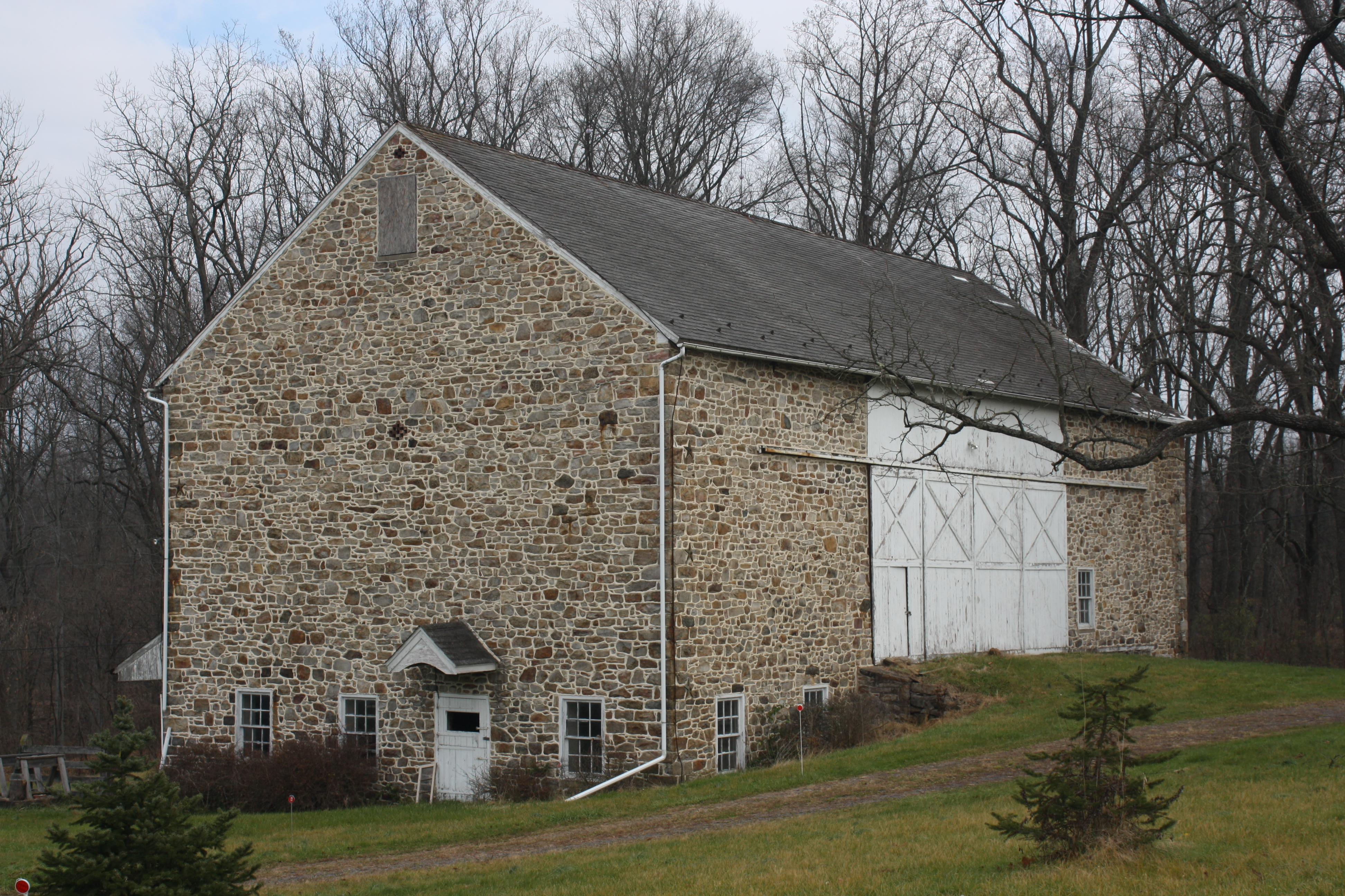 Jacob Funk House and Barn is a historic home located at Springfield Township, Bucks County, Pennsylvania. Barn, view from Route 212. Object location40° 33′ 32″ N, 75° 16′ 04″ W